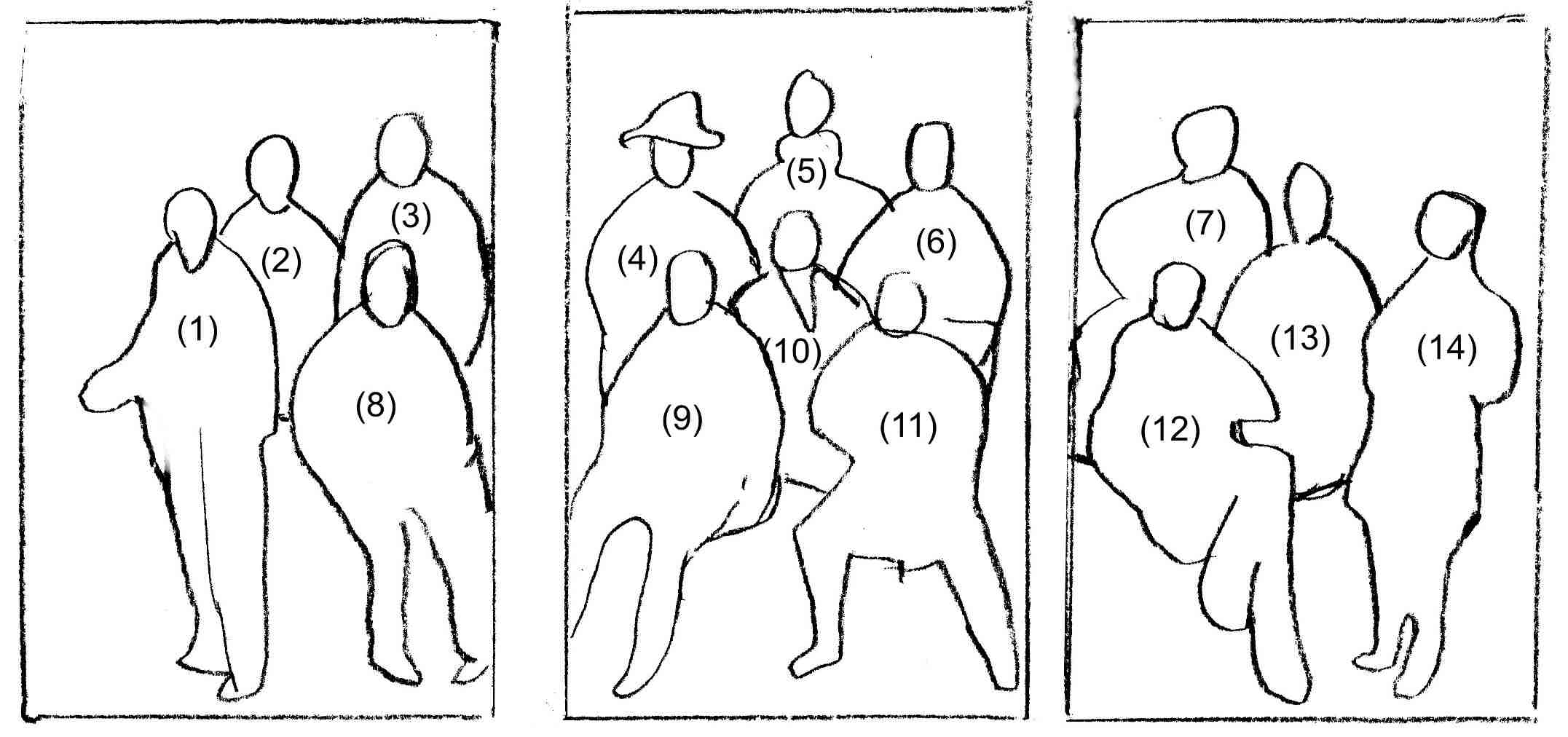 Honourables of Meiji-period, pictured on 1877 September 18th (after Seinan-war). Annotation for "Genroin Members NDL.jpg". 1 Okubo, 2 Yamagata, 3 Kido, 4 Arisugawa, 5 not noted, 6 Sanjo, 7 Iwakura, 8 Nozu, 9 Saigo, 10 Itagaki, 11 Saigo Tsugumichi 12 Itagaki, 13 Tani, 14 Kuroda.